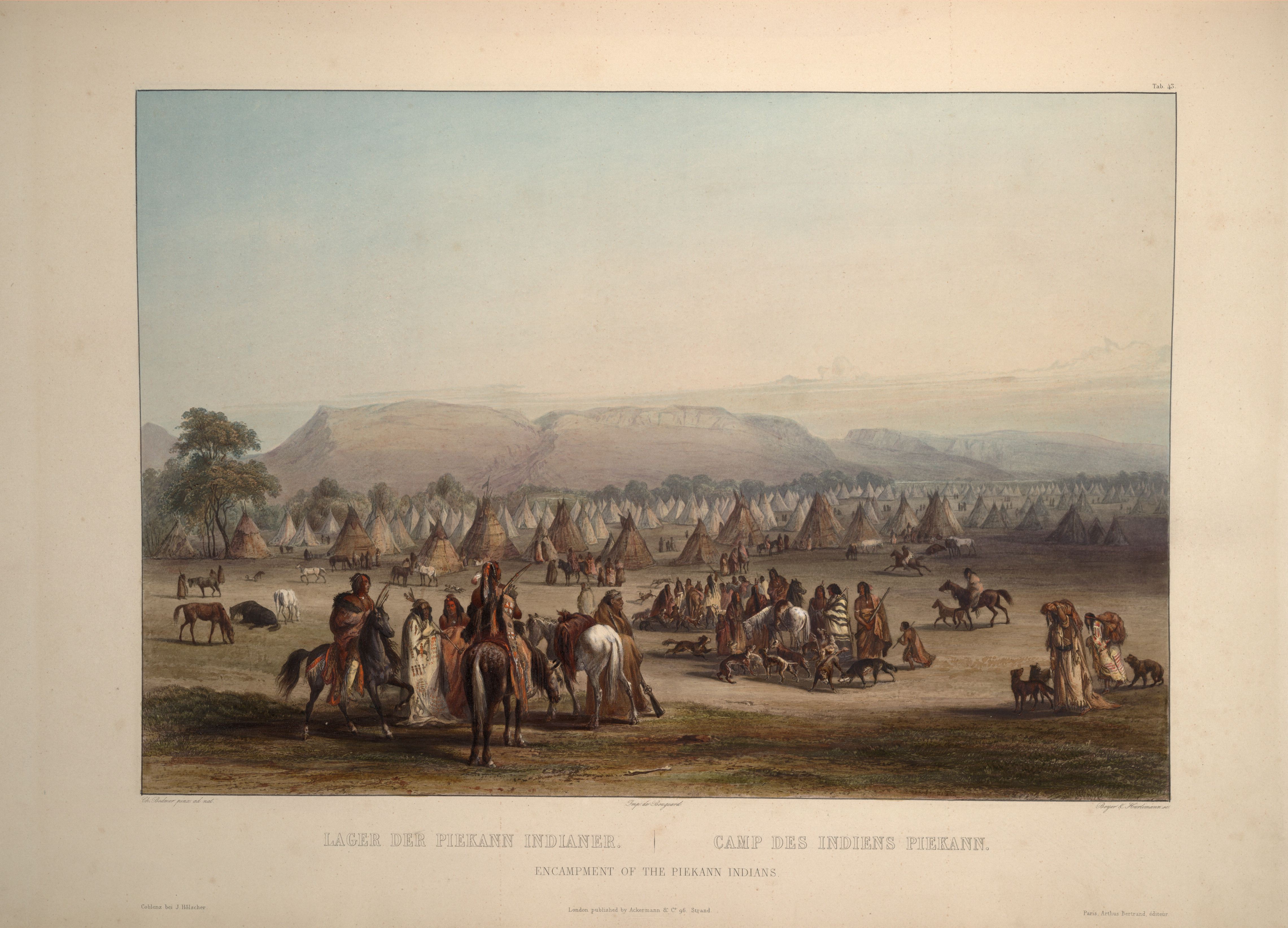 Encampment of the Peikann Indians